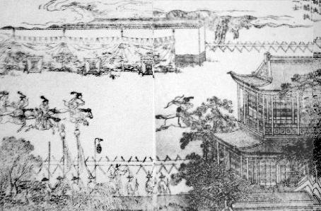 Military exams in the chinese empire